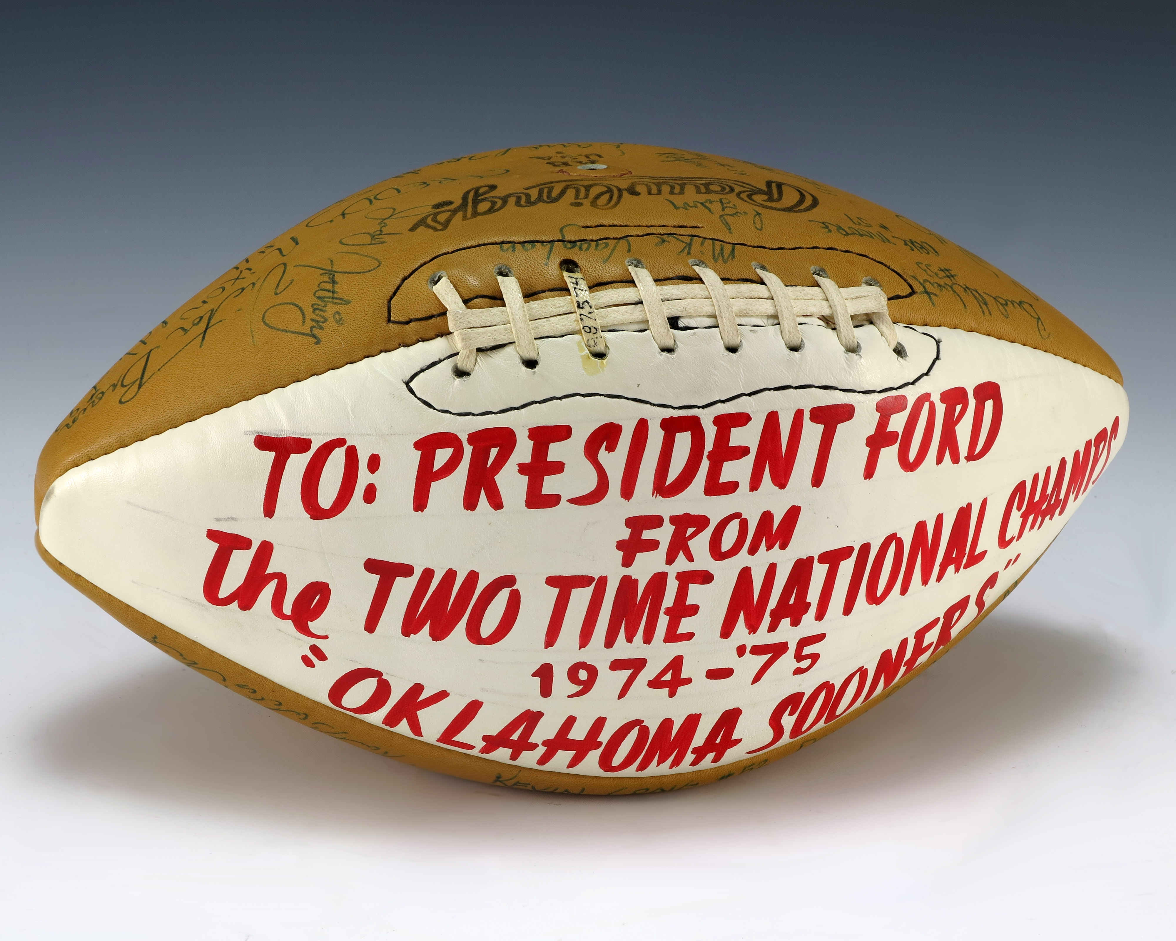 A football from the Oklahoma Sooners and signed by the team. Notable signatures include Billy Sims (1978 Heisman Trophy winner) and JC Watts (would serve in the US House of Representatives). On the white quarter of the football an inscription to Ford can be found written in red.